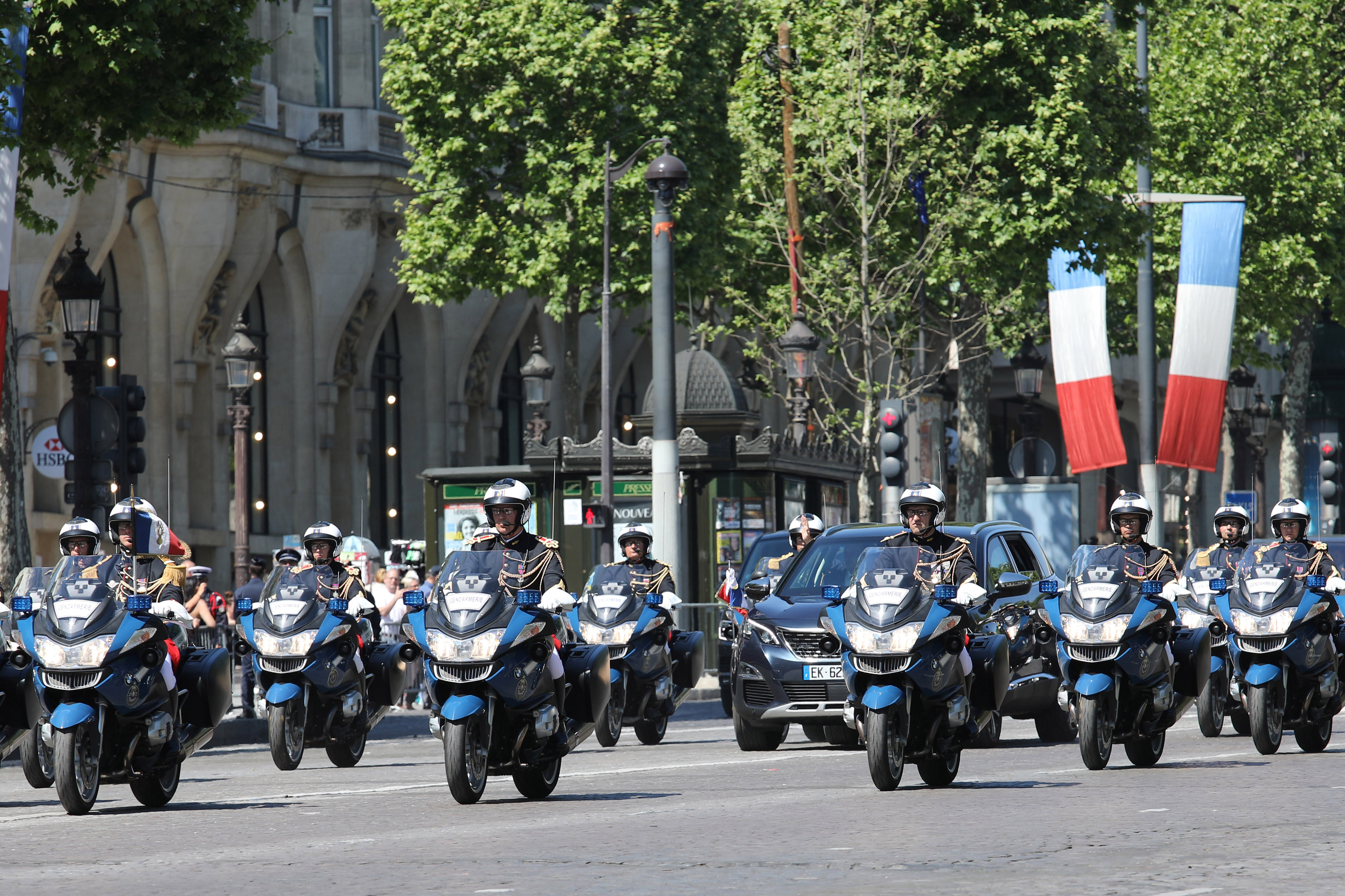 French garde républicaine presidential escort, Paris May,8 2018